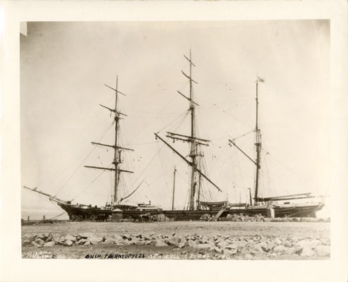 Clipper ship 'Thermopylae. 1 photographic print: b&w. Written on back: "Thermopylae. Builder: Walter Hood, Aberdeen, 1868. Dimensions: 212 x 36 x 20. Tonnage: 948 tons. Type: Wooden Clipper Ship." Written on front: "M.B. Coll. NO 14E, Ship Thermopylae. Sea Wall S.F., CAL. 1880."